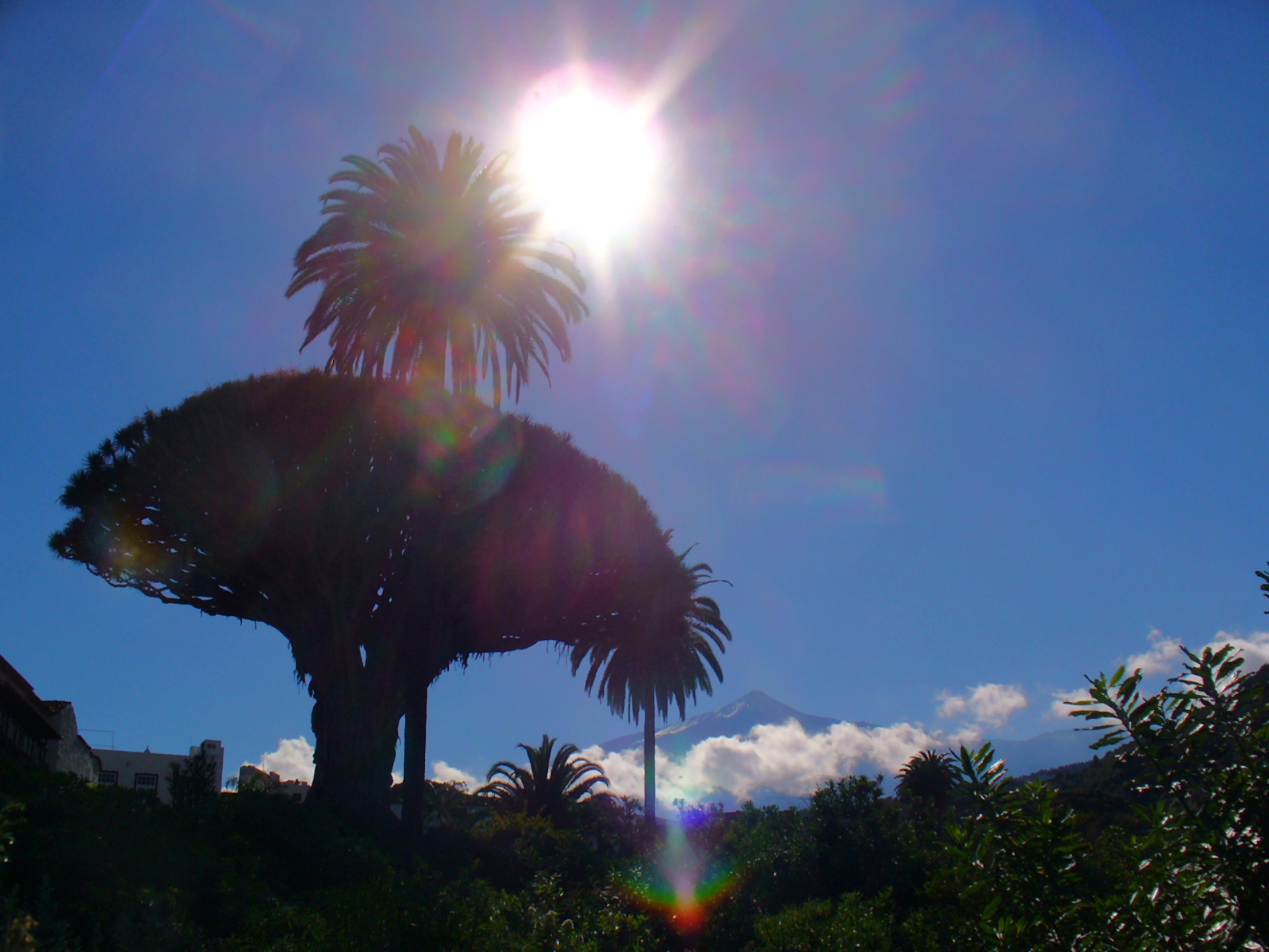 Draco millenario (Dracaena draco) at Icod, Tenerife, with Teide